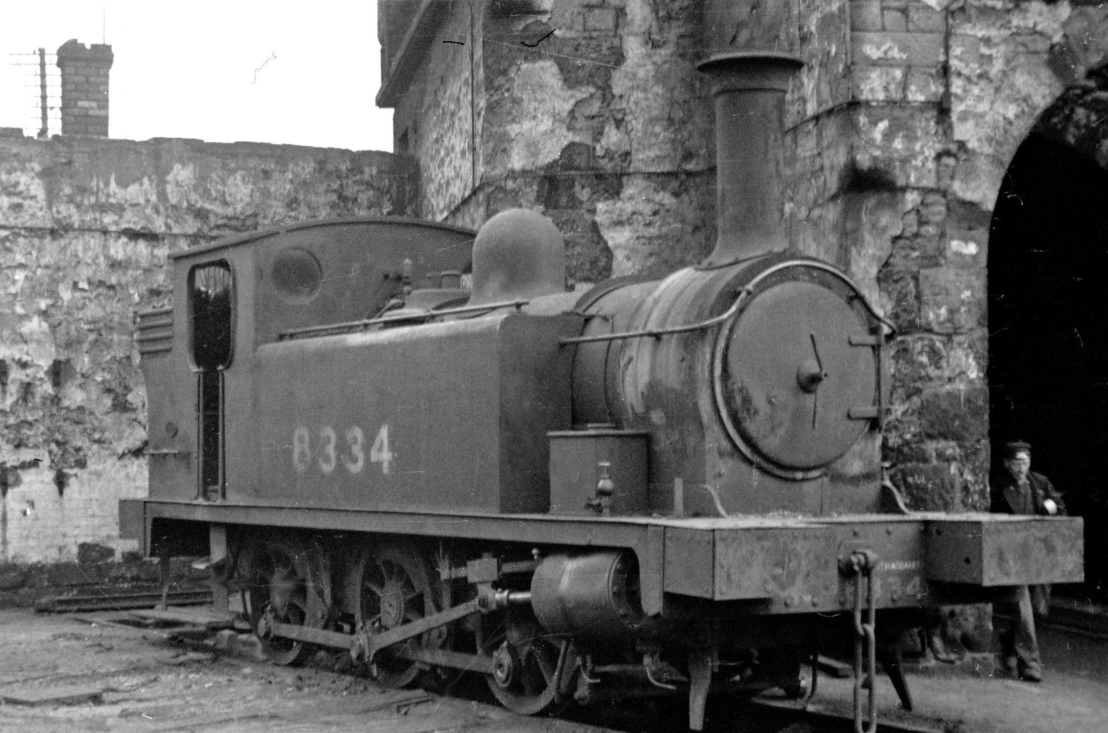 An 0-6-0 Dock Tank at St Margarets Locomotive Depot. The LNER (ex-North British) had two major locomotive depots in Edinburgh, St Margarets east of Waverley Station and Haymarket west of it. St Margarets was grossly inadequate and over crowded, to be extent that part was on one side of the main lines and the other across the tracks, so that men and engines had to go to and fro between the frequent passing trains. Moreover, the allocation of some 208 locomotives (in 1947) had to be dispersed, especially on Sundays, at several other sites on the east side of Leith. The Depot provided motive power for both passenger and freight trains on the ECML to Berwick and Newcastle also the Waverley Route to Carlisle, as well as a numerous more local passenger, freight and shunting jobs. The 1947 allocation comprised:- 3 2-6-2, 16 2-8-0 (11 ex-WD, 5 LMS-type), 15 2-6-0, 25 4-4-0, 71 0-6-0 (5 different classes), 6 4-4-2T, 1 2-6-4T, 13 2-6-2T, 2 2-4-2T, 18 0-6-2T, 25 0-6-0T, 13 0-4-0T, with an remarkable variety of ex-NB, other LNER and non-LNER classes. Here, ex-NB Reid J88 0-6-0T No. 8334 is resting in the roofless roundhouse on the north side of the main line: its work was shunting in Leith and Granton Docks or pilot duties at Heriothill and Lochend: all J88's and the 0-4-0T's had 'dumb' buffers.